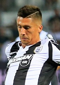 PAOK VS. Spartak Moscow 8 august 2018